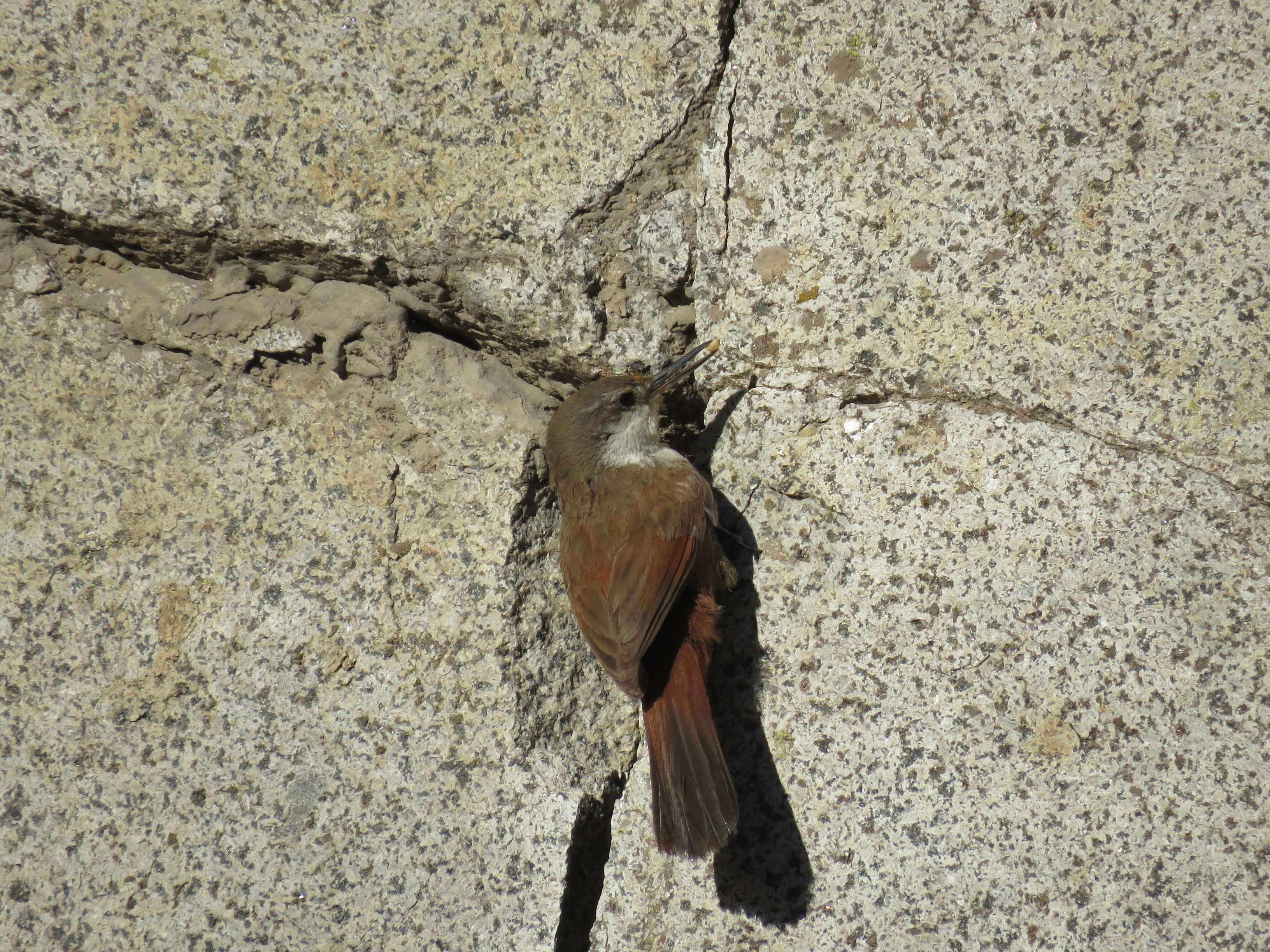 Crag chilia, Camino Embalse El Yeso, Región Metropolitana de Santiago, Chile